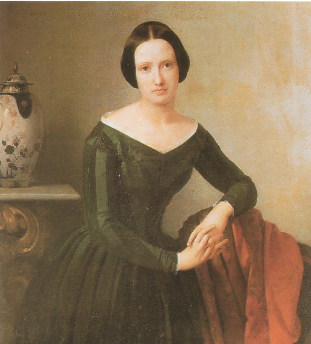 Portrait of Bice Presti Tasca